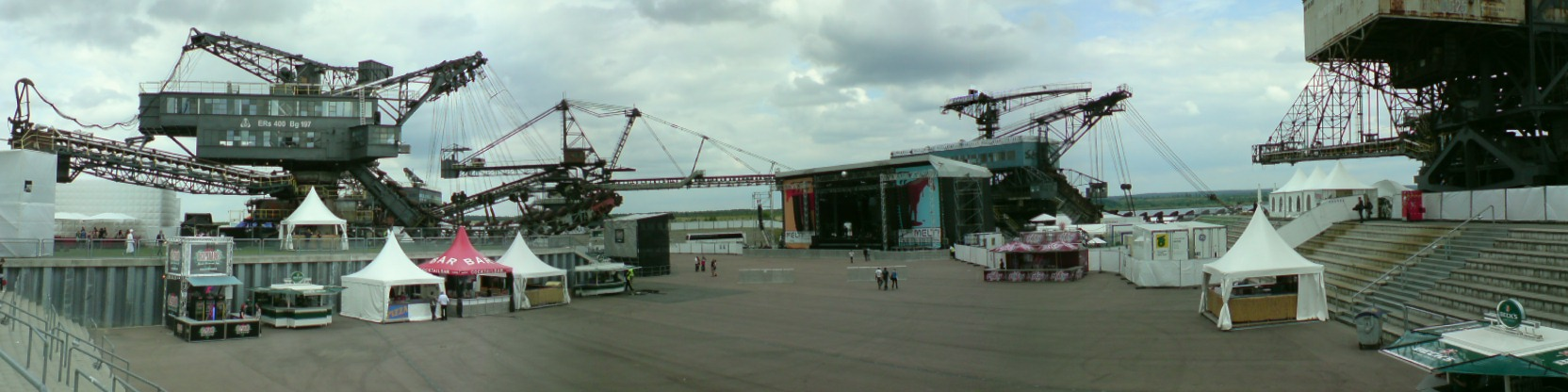 Picture of the main stage at Melt! Festival.